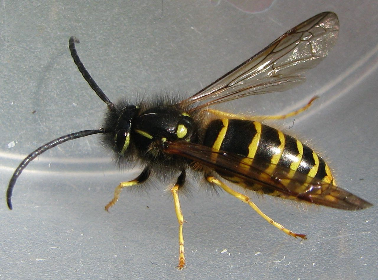 Male common wasp Vespula vulgaris. Template:Byline